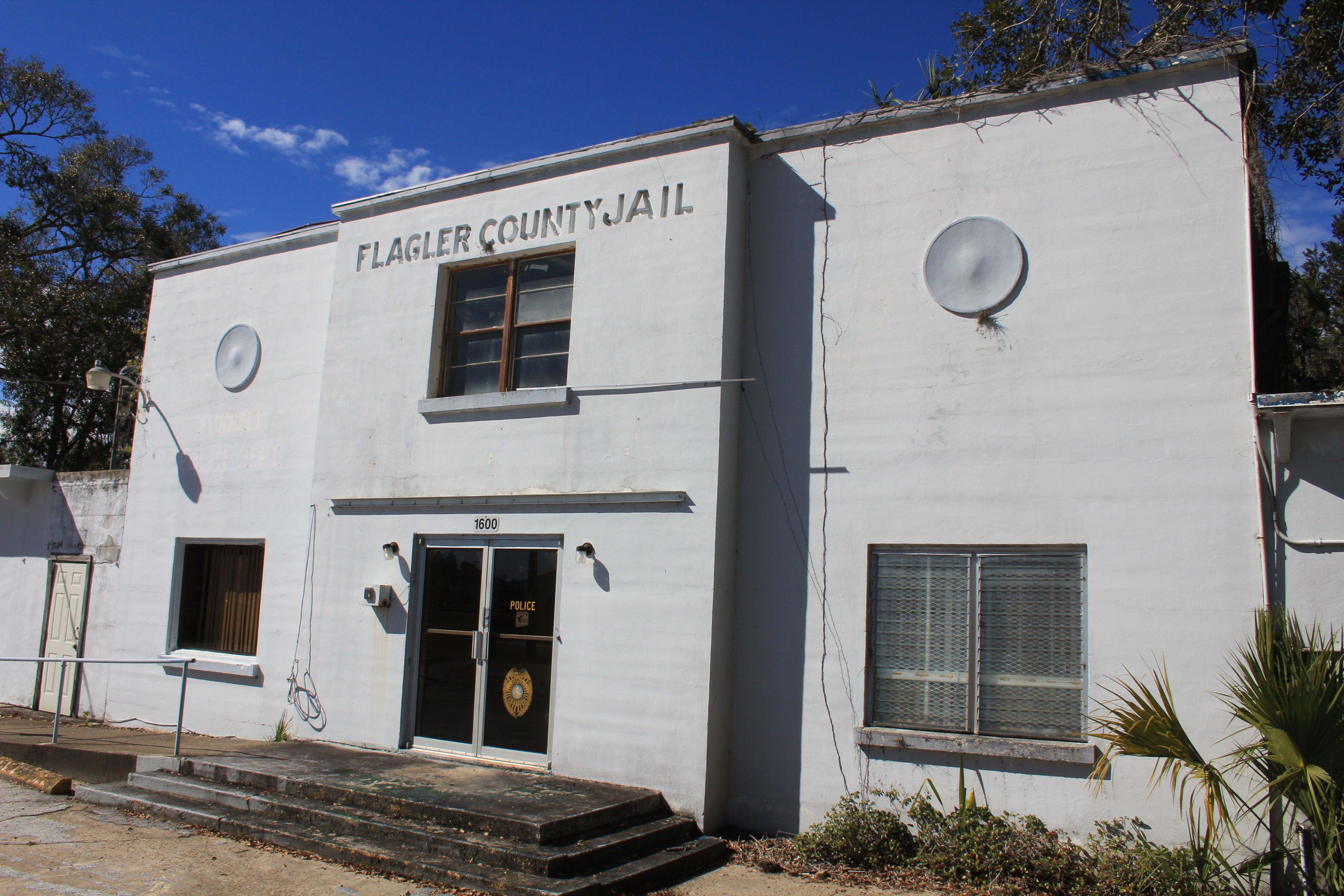 Photograph of the WPA-Built Flagler County Jail - Front - East - Central View